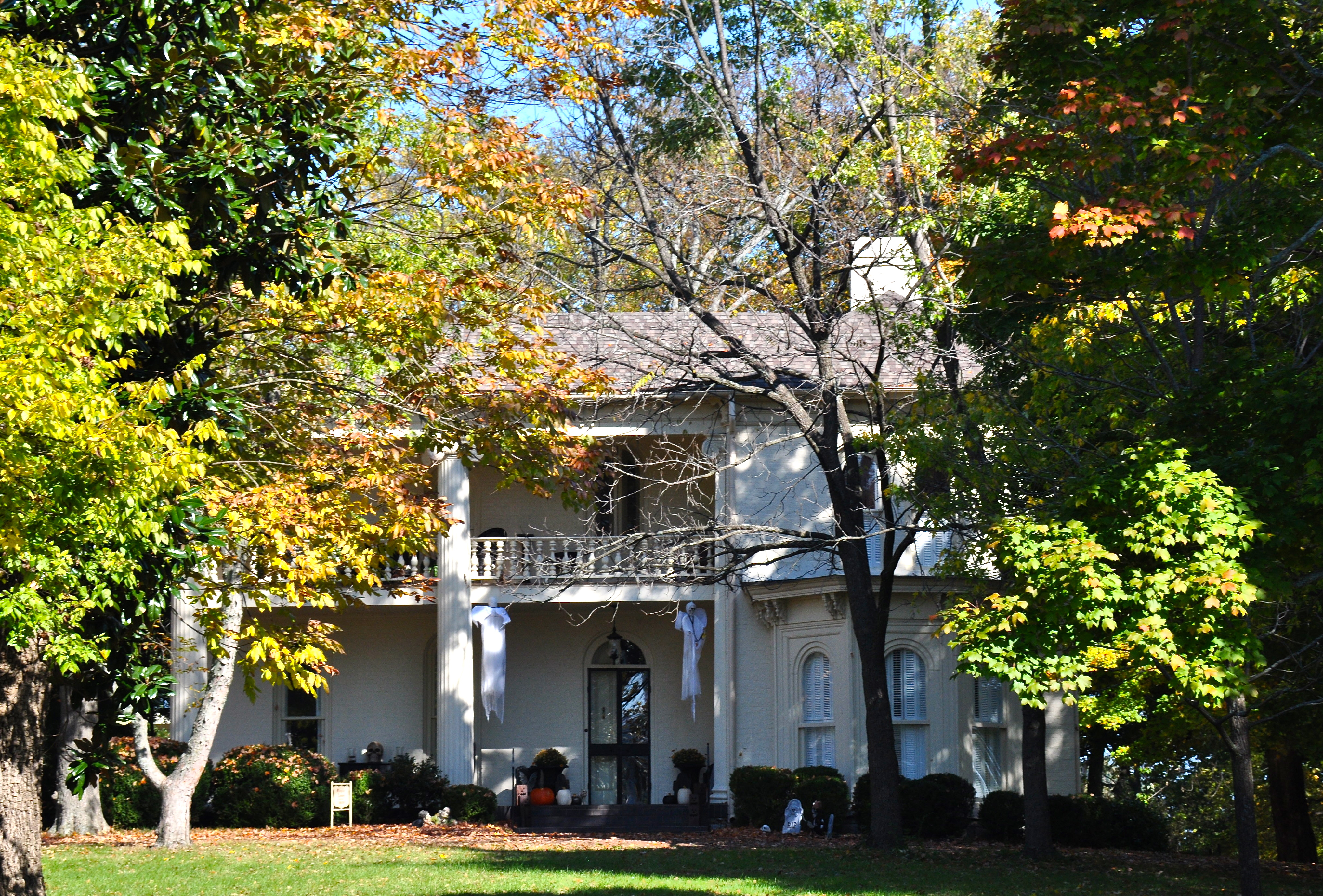 Owen-Cox House, Moores Ln., 1 mile (1.6 km) east of Interstate 65 Brentwood